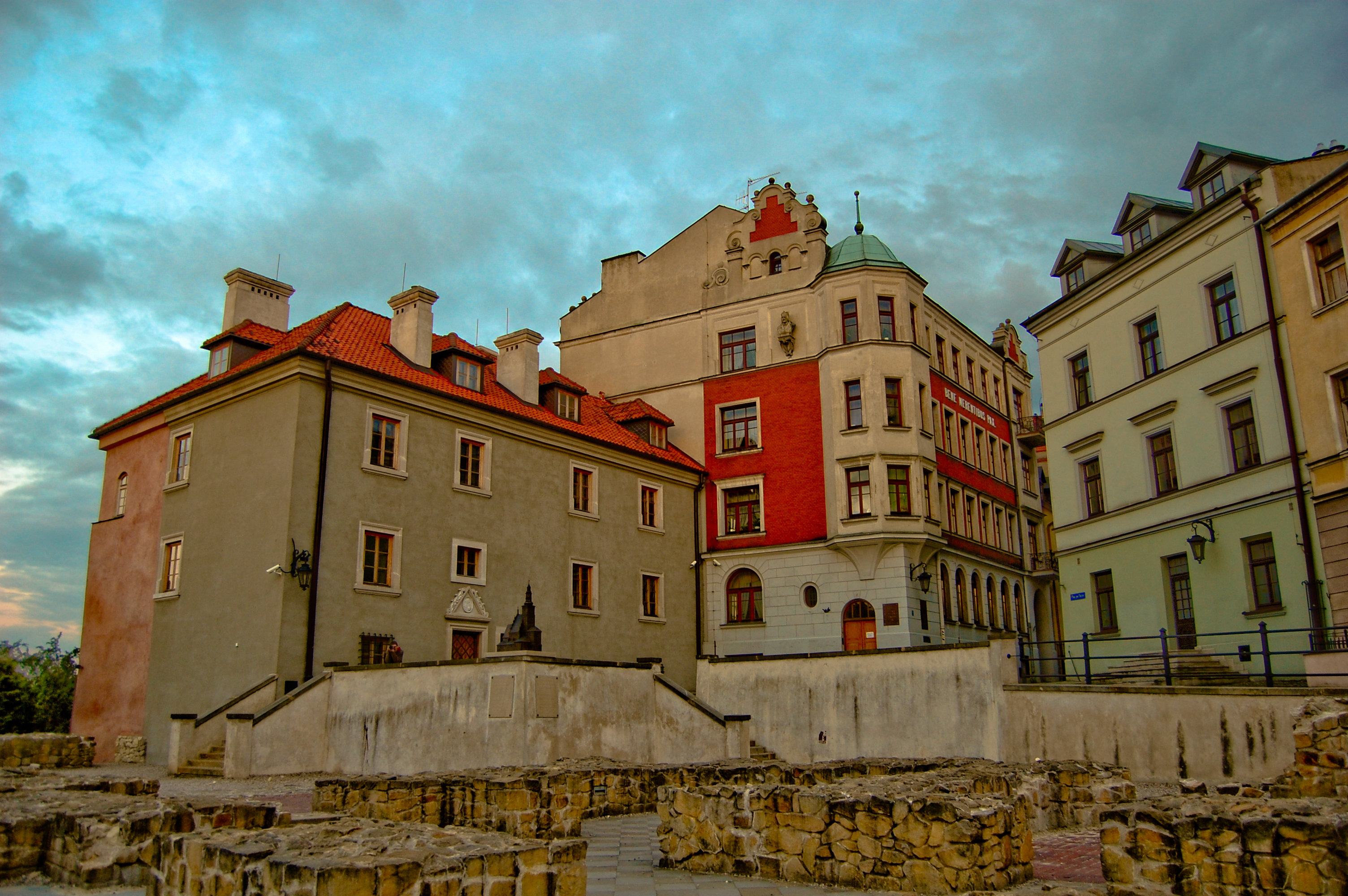 Lublin Old Town